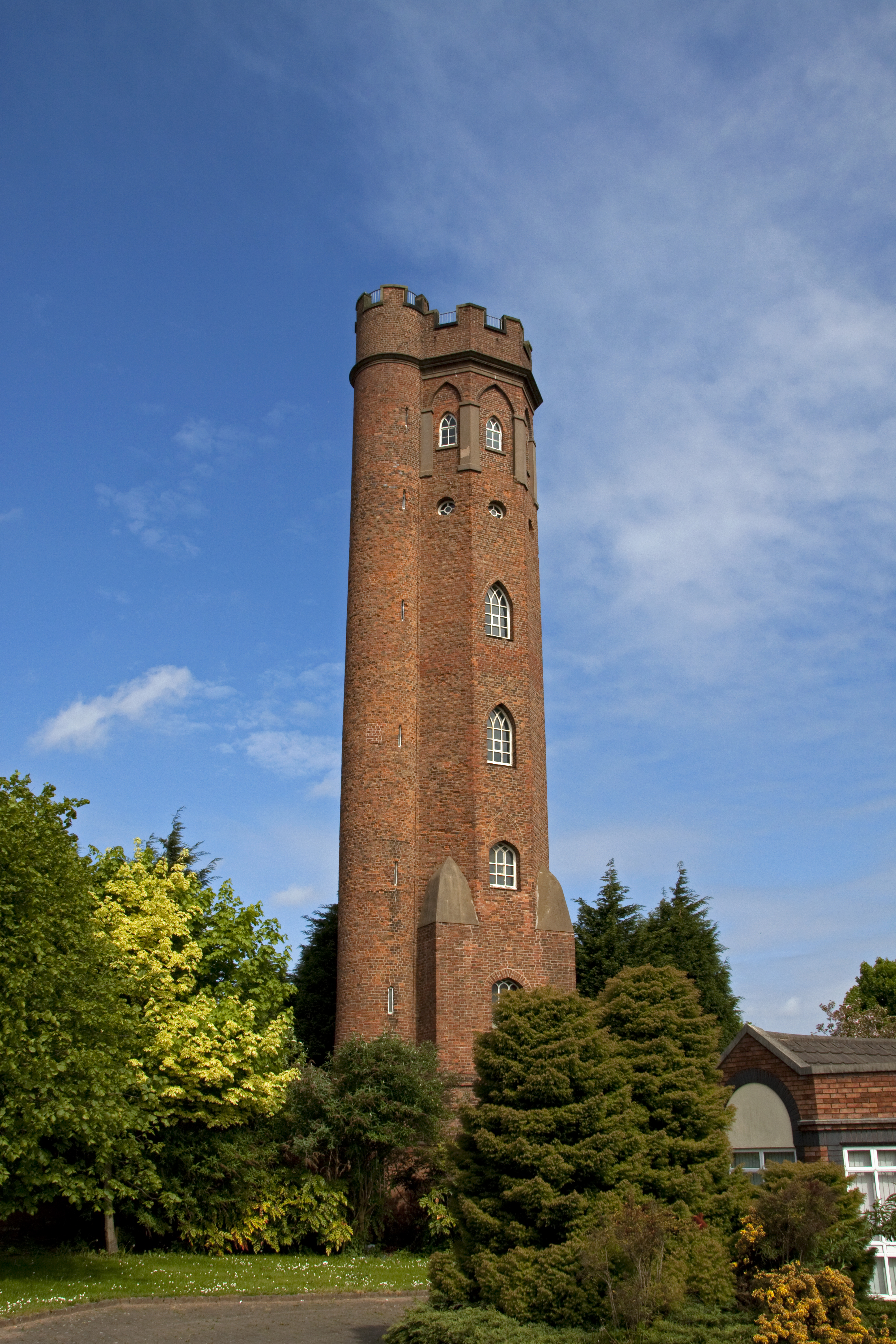 Eccentric landowner John Perrott built the folly in 1758. JRR Tolkien lived in its shadow in nearby Stirling Road during his childhood. The Folly and The Waterworks tower which together are said to be the inspiration for the two towers